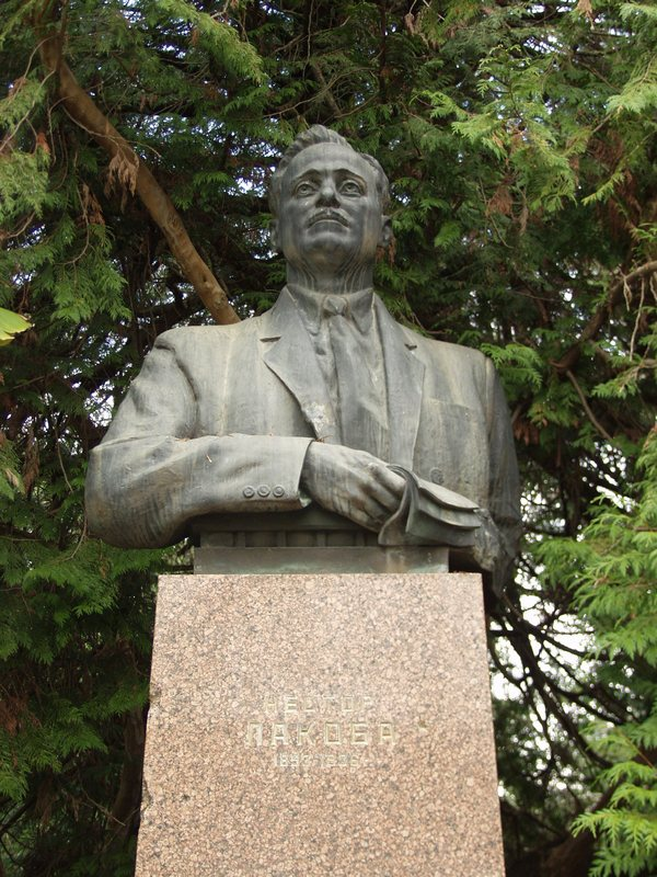 The monument for Nestor Lacoba, Bolshevik revolutionary (Republic of Abkhazia, Botanical garden of Sukhumi)